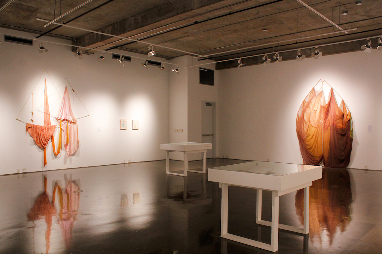 Installation view of Rosemary Mayer exhibition, 2017.